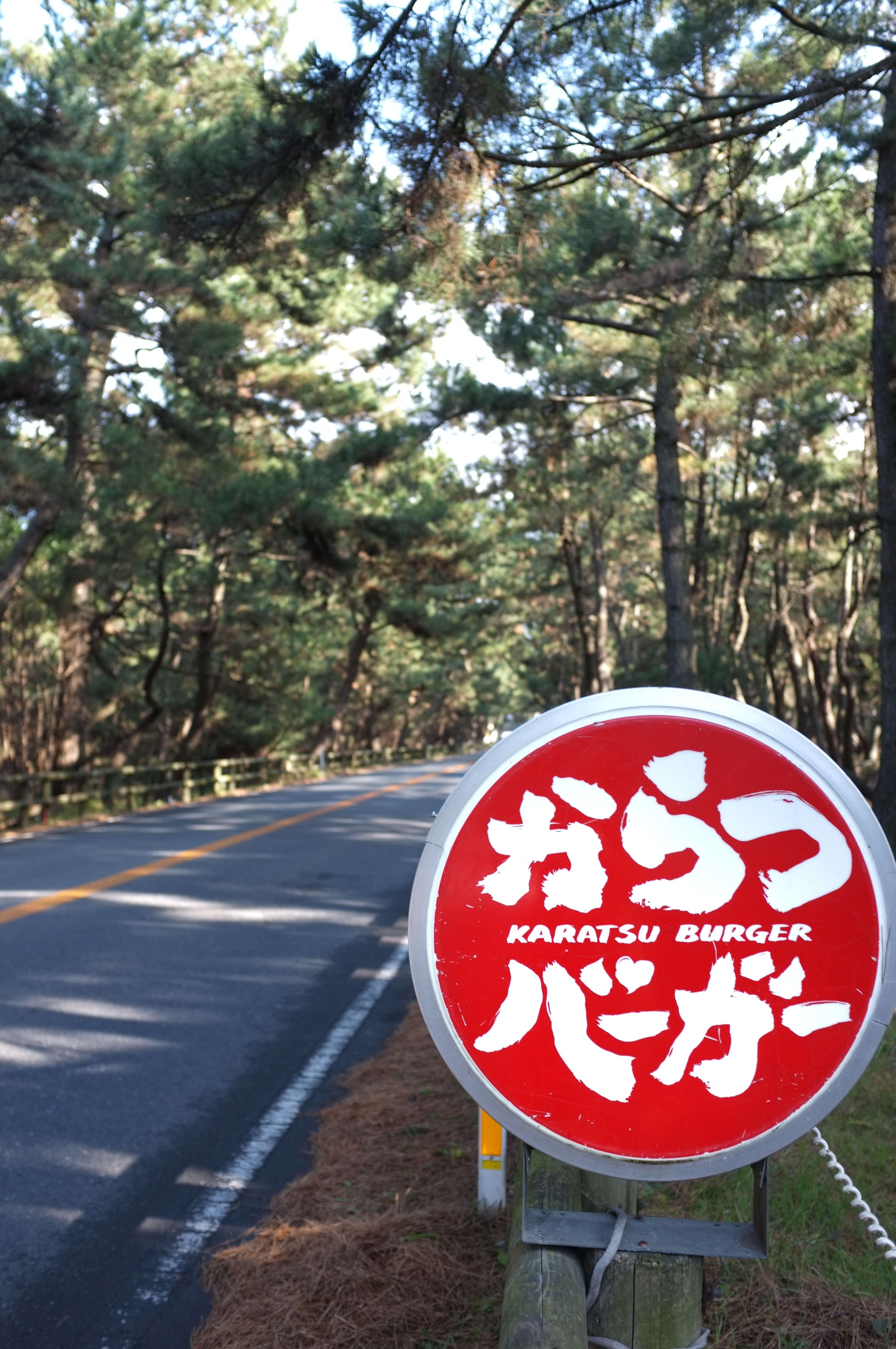 The sign of Karatsu Burger (Nijinomatsubara in Karatsu, Saga, Japan)